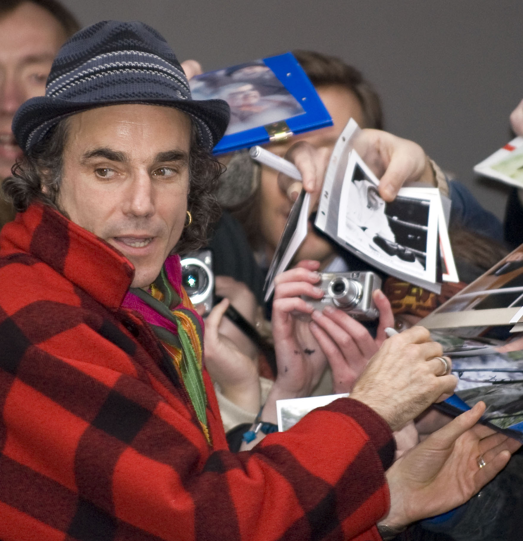 Daniel Day-Lewis, Leaving the press conference of "There will be blood" at the Hyatt Hotel, Potsdamer Platz, Berlin